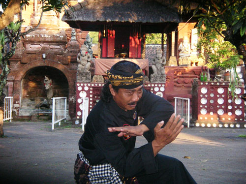 Silat Grand Master Made Sujana Balok, Denpasar Bali